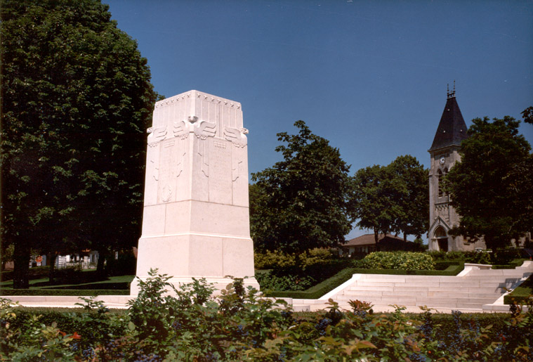 The Cantigny Memorial was dedicated on 9 August 1937. On the side of the memorial appears the inscription : ERECTED BY THE UNITED STATES OF AMERICA TO COMMEMORATE THE FIRST ATTACK BY AN AMERICAN DIVISION IN THE WORLD WAR. On the side of the memorial appears the inscription: THE FIRST DIVISION UNITED STATES ARMY OPERATING UNDER THE X FRENCH CORPS CAPTURED THE TOWN OF CANTIGNY ON MAY 28 1918 AND HELD IT AGAINST NUMEROUS COUNTERATTACKS. French translations of these inscriptions appears on opposite sides of the monument.